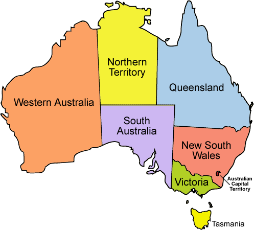 Map displaying the outline of Australia with each of the states and territories coloured and labelled, using Image:Australia locator-MJC.png but whitespace surrounding the outline removed, derived from Image:Tasmania locator-MJC.png.